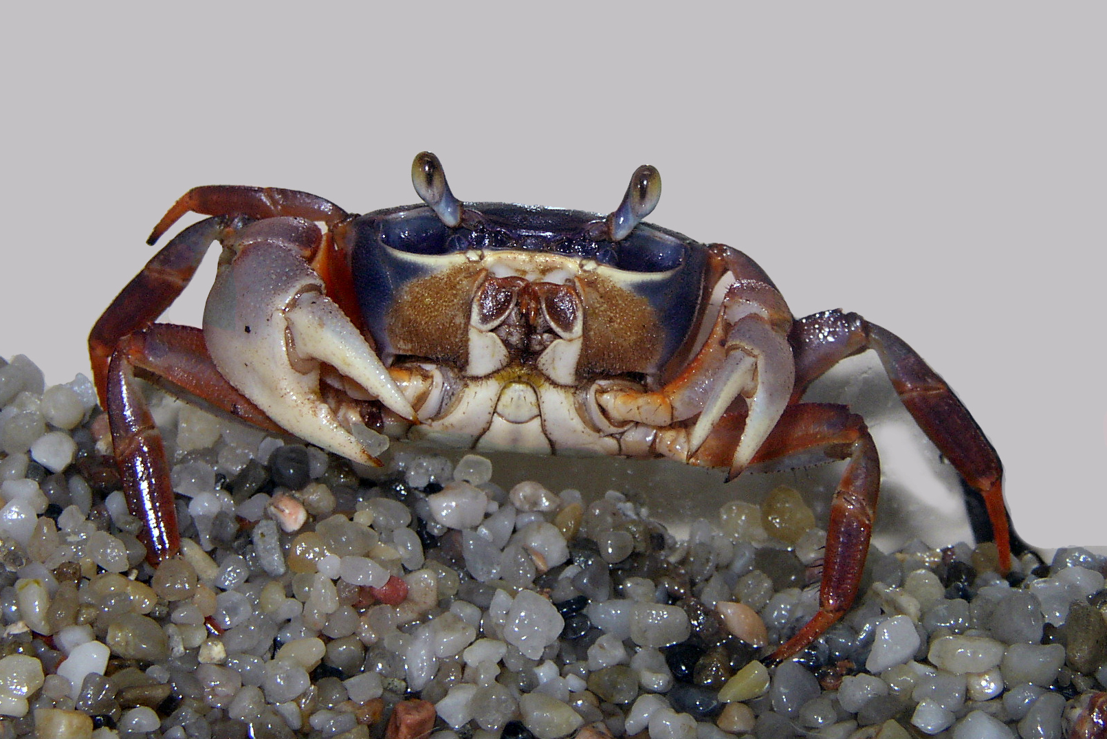 The rainbow crab (Cardisoma armatum), closer version of Image:Rainbow crab.jpg, itself corrected version of that